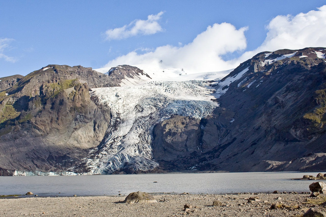 Gígjökull outlet glacier from dormant stratovolcano Eyjafjallajökull. More info here